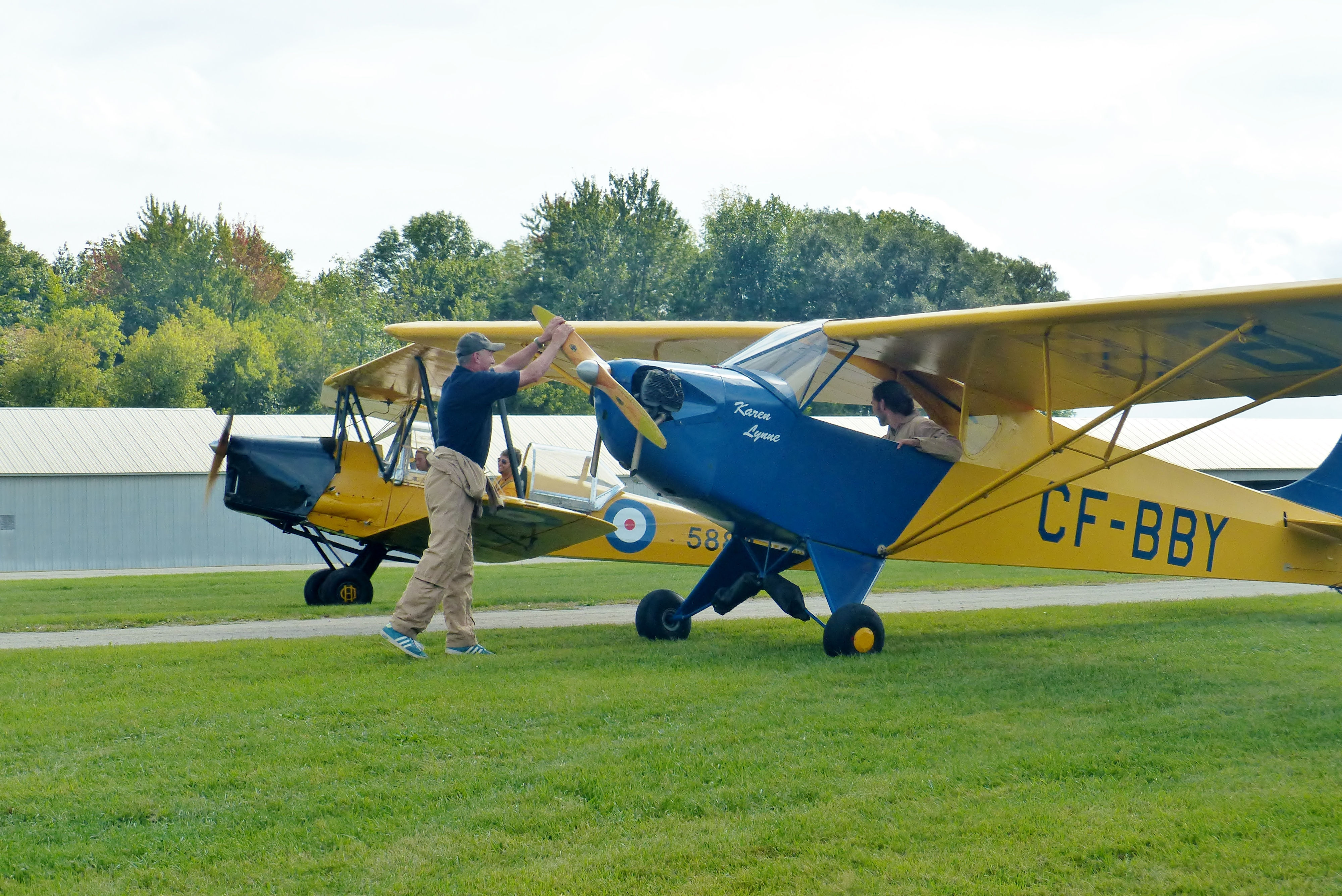 The Tiger Boys Taylor J-2 CF-BBY, ready for engine start at the Tiger Boys Open House, September 18th, 2016, Guelph Airpark, Guelph, Ontario, Canada. The Tiger Boys De Havilland DH.82C Tiger Moth CF-CTN is seen in the background. "BBY" is serial number 709, built in 1937 by the Taylor Aircraft Co. and was restored by Tom Dietrich and Bob Revell and re-registered in 2010. Picture taken with the permission of Messrs. Dietrich and Revell.